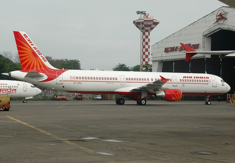 Air India at Mumbai Chhatrapati Shivaji International Airport